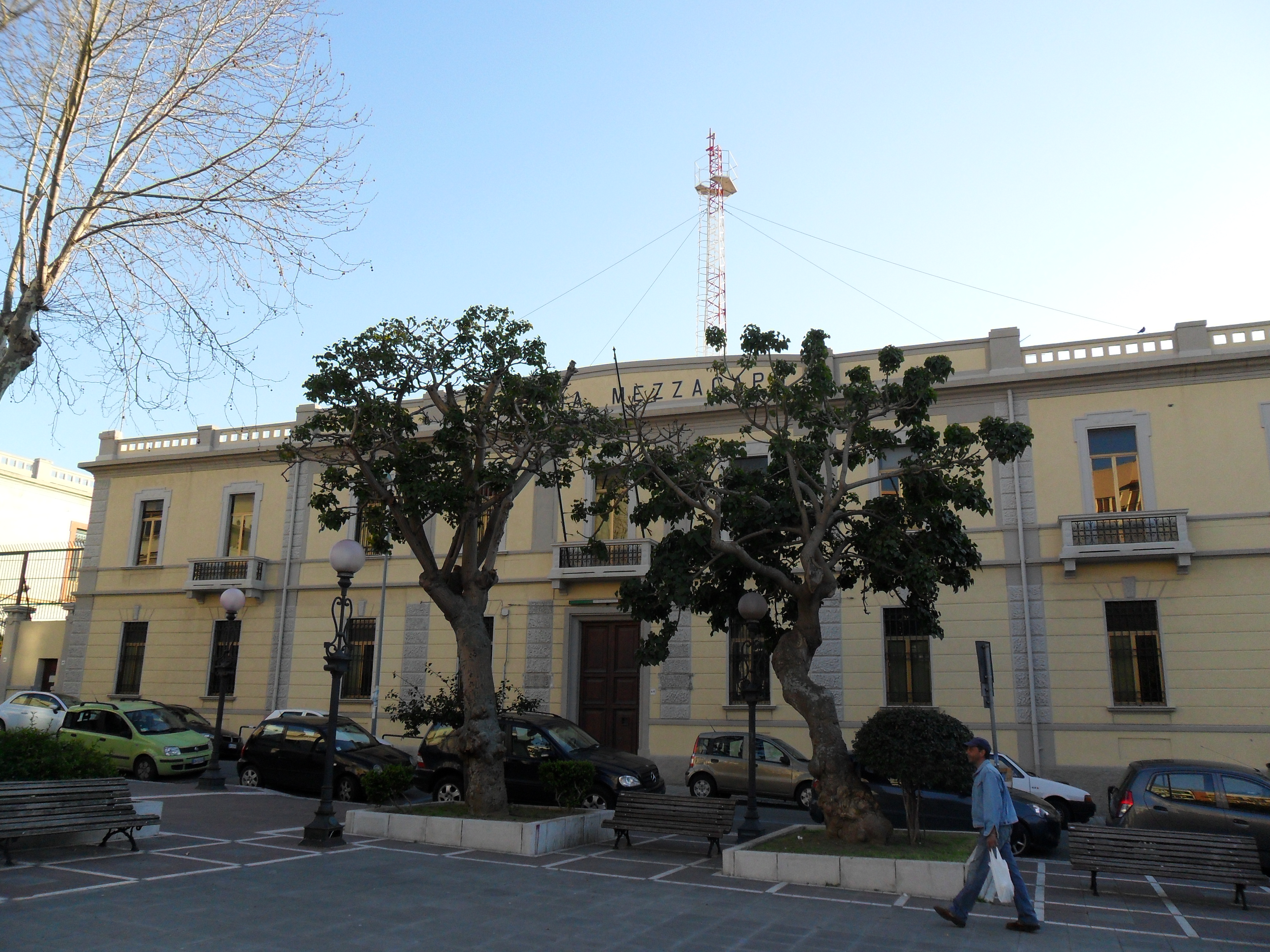 Military Palace